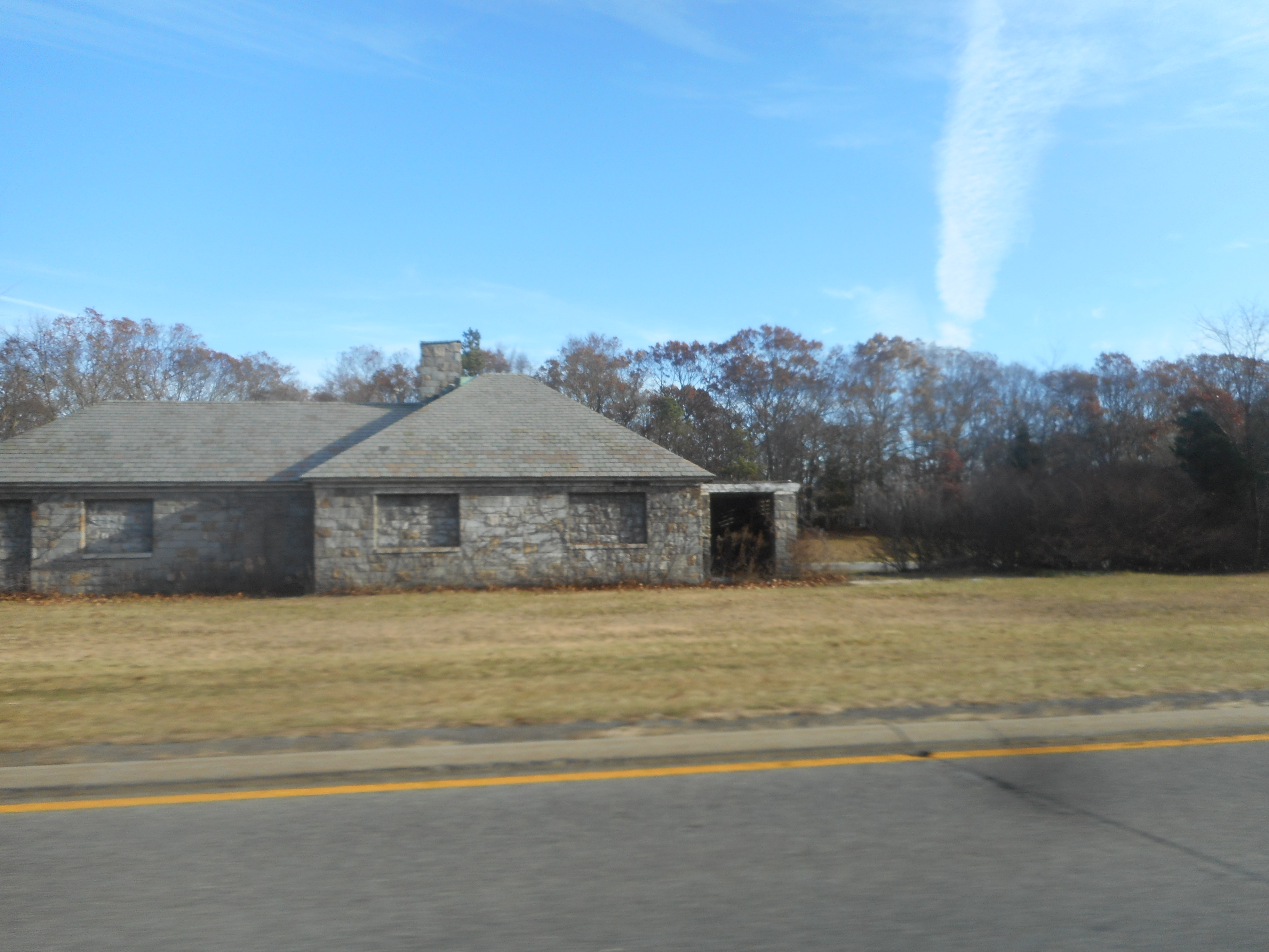 Site of the former gas station in the median of the Northern State Parkway just west of Exits 43 (SCR 4) as seen from the eastbound lanes in Commack, New York. The gas station which was closed in 1985 was located in the median, and was somewhat far east of Exits 42 N-S (NYS Route 231, Suffolk CR 35, and Suffolk CR 66). It was also east of the never built Exits 42 A-B for the Babylon-Northport Expressway. Just as with the former gas station on the Southern State Parkway in North Amityville, capturing this station has been proven difficult from a moving car.